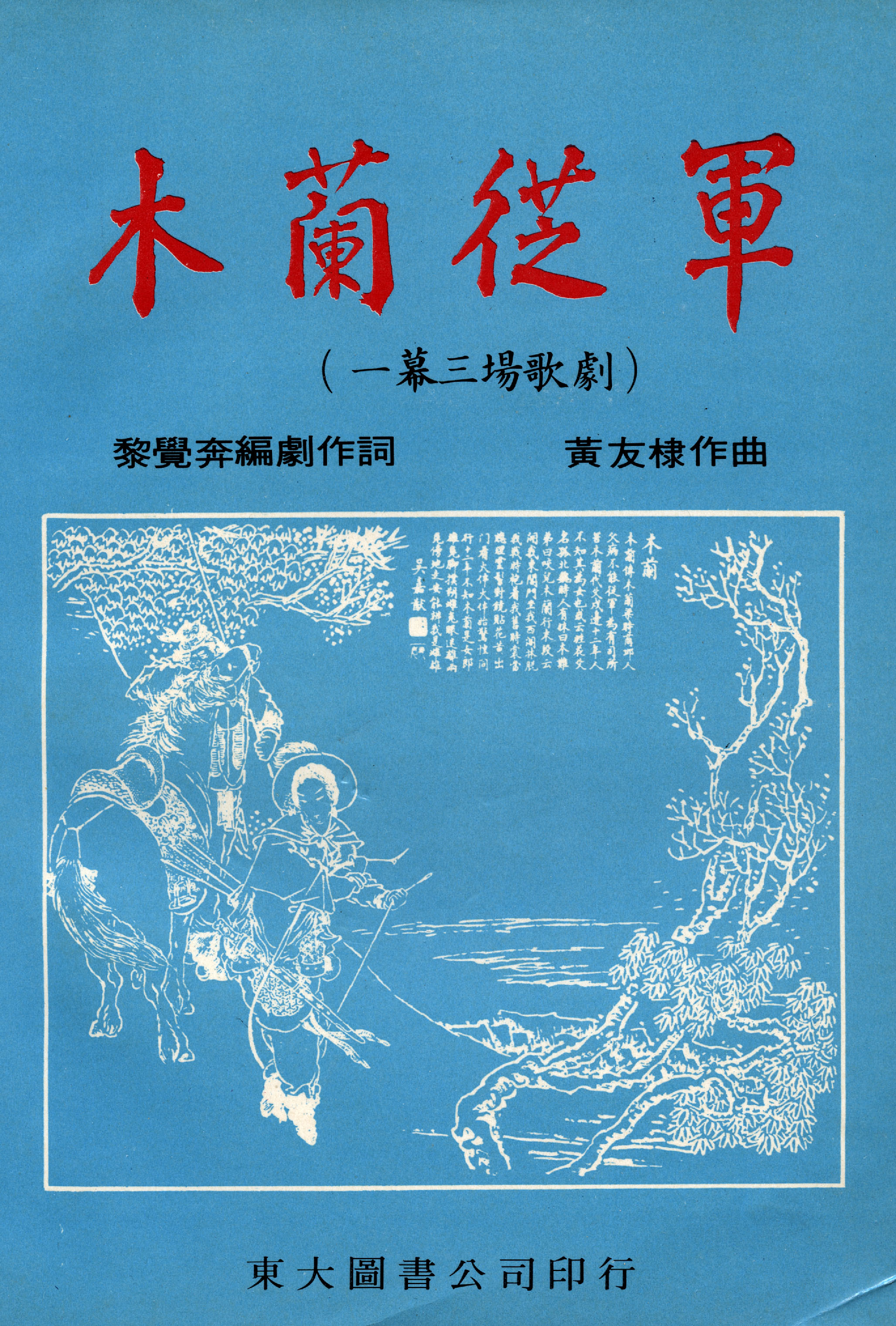 Mulan Joins the Army songbook with music by Chinese composer Hwang Yau-tai, early 1960s